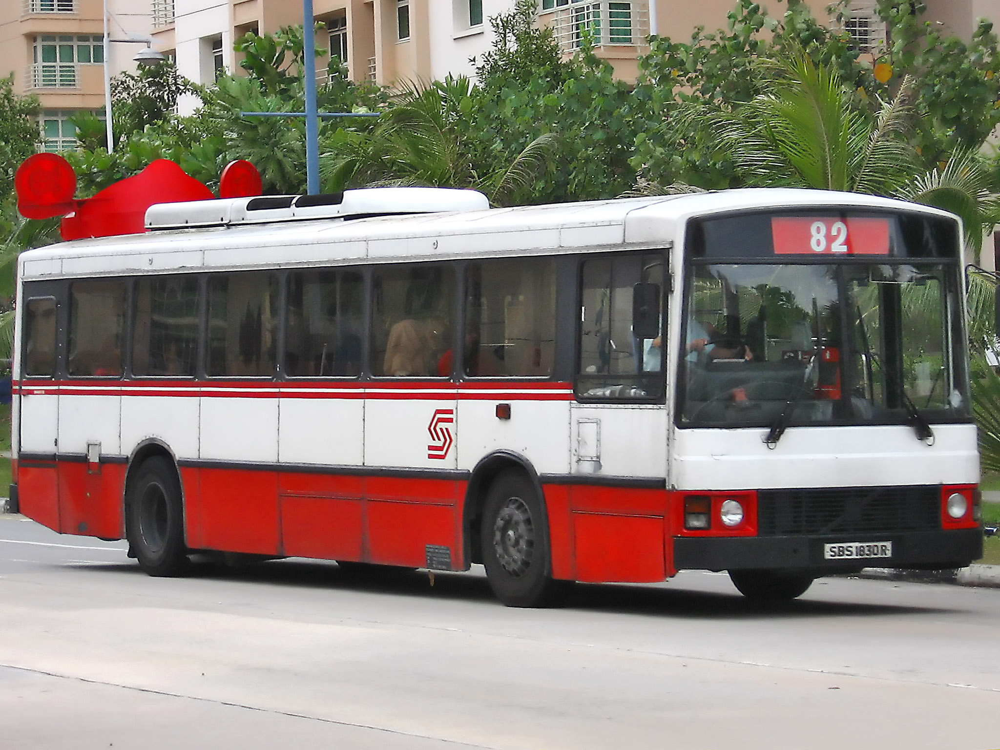 A Volvo B10M MK2 with Duple Metsec Bodywork(SBS1830R), on Svc82 in Punggol, Singapore. Img by Calvin Teo, Singapore, 31/01/2005